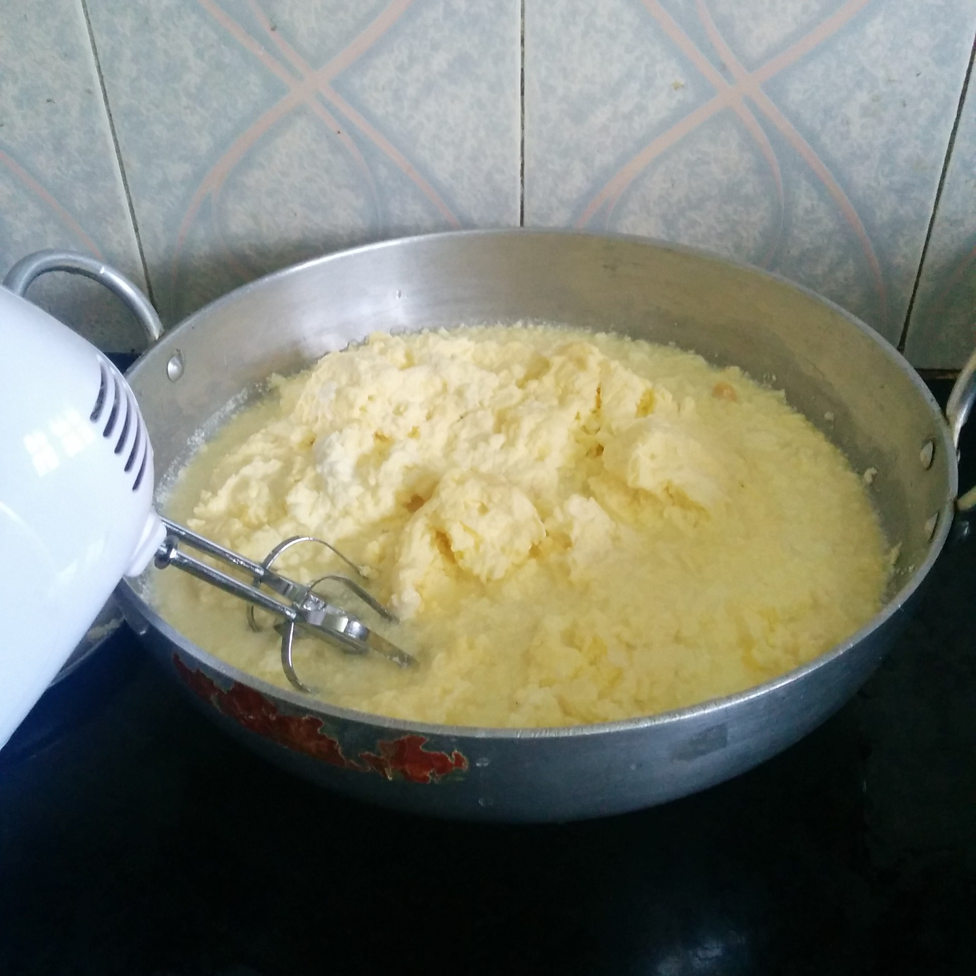 Cream to get clarified butter home made.